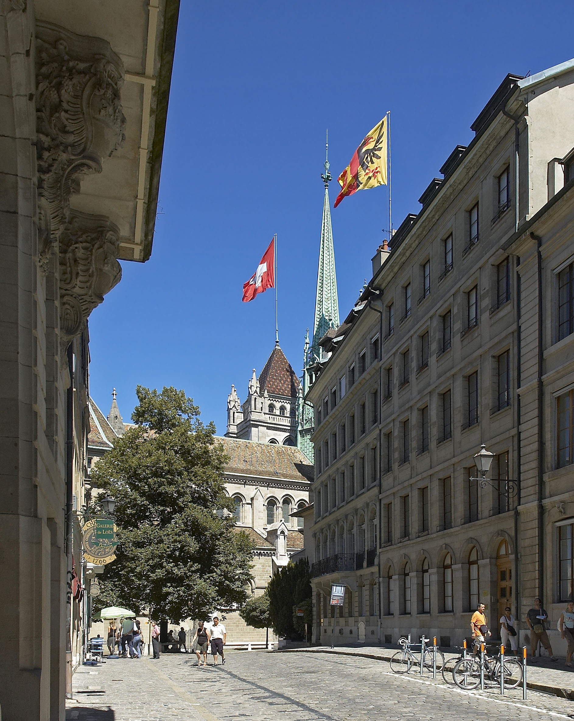 Street looking at the Cathédrale Saint-Pierre